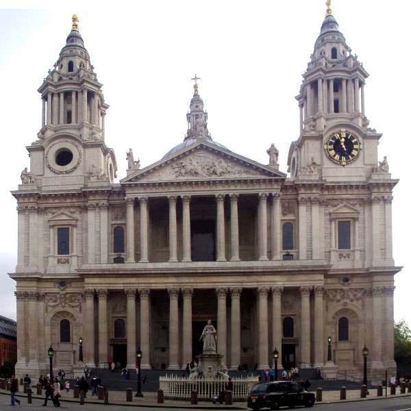 St Paul's Cathedral (west front) in London.